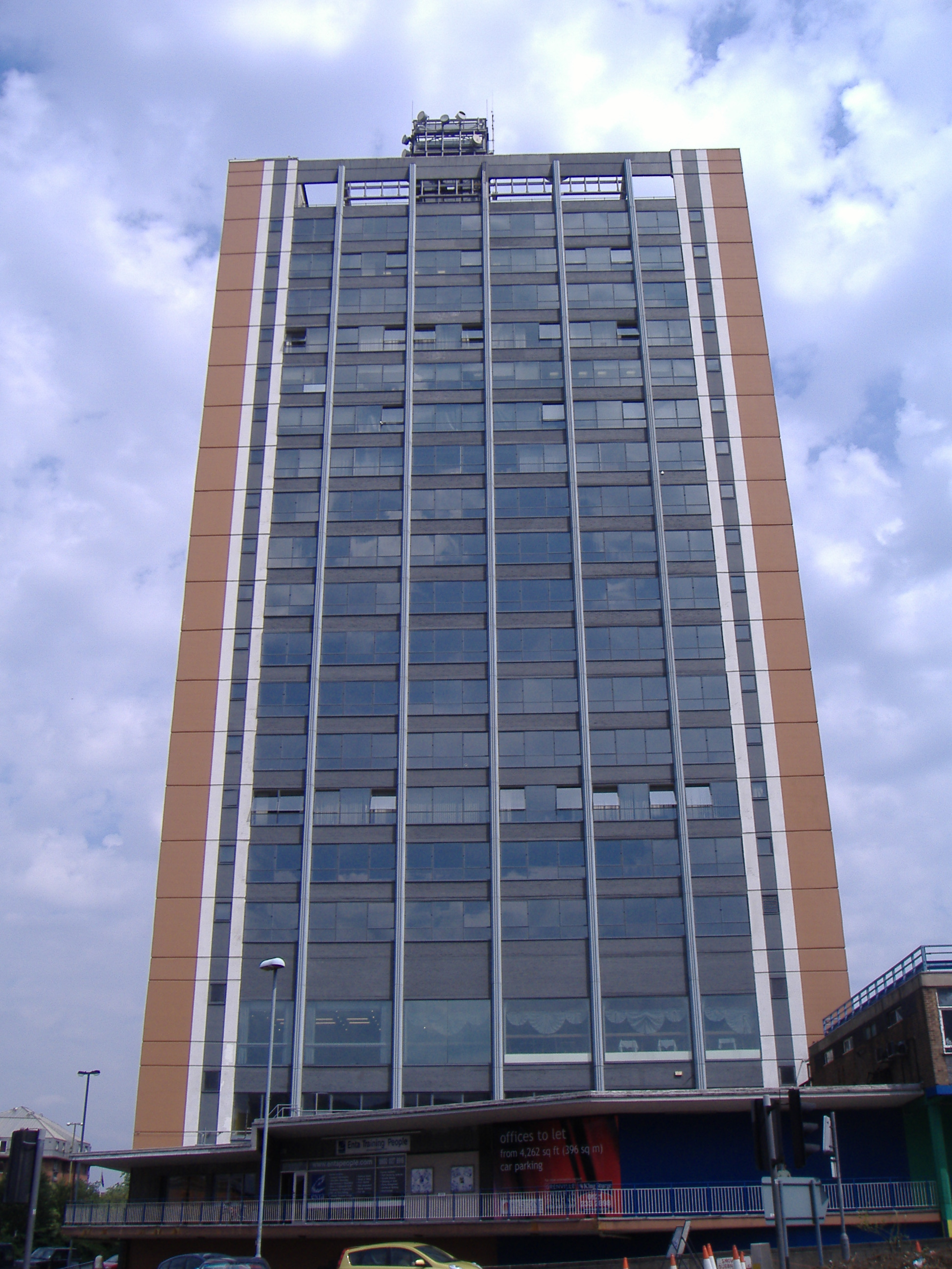 1 Snow Hill Plaza in Birmingham, England. It is noticeable by the orange facade.